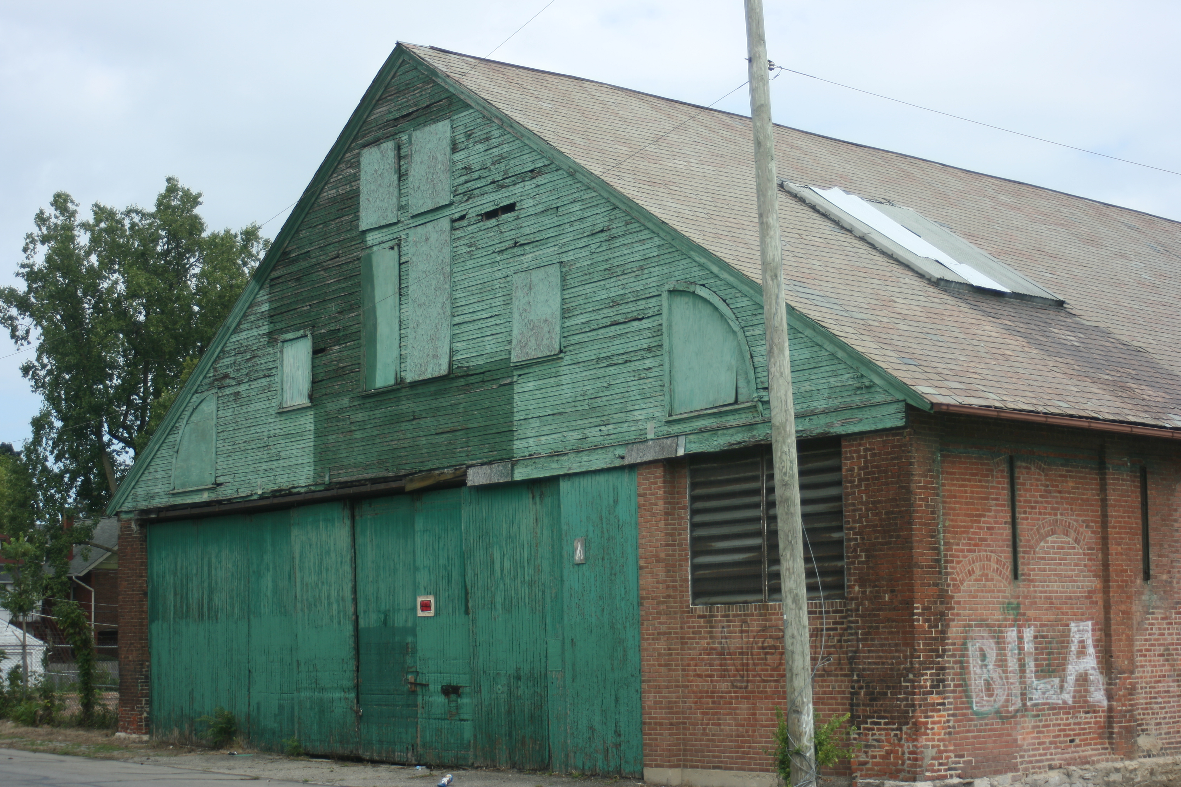 A look at the delapidated condition of the historic Oak Street Trolley Barn.